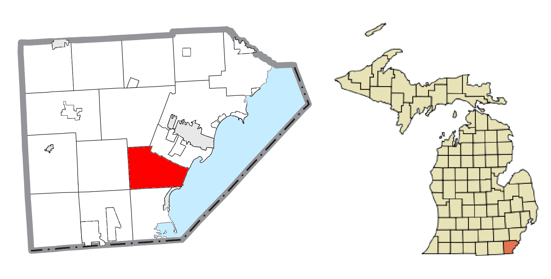 La Salle Township, MI